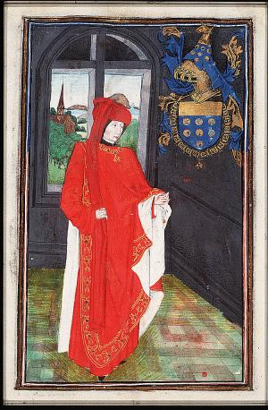 Statuts, Ordonnances et Armorial de l'Ordre de la Toison d'Or (Statutes, Ordonnances and armorial of the Order of the Golden Fleece) Place of origin, date: Southern Netherlands; 1473. Added sections: Southern Netherlands; 1478 or shortly after and 1491 or shortly after Material: Vellum, ff. 86, 249x187 (167x106) mm, 23 lines, littera cursiva (lettre bourguignonne). French. Binding: 18th-century brown leather Decoration: 1 full-page miniature (170x115 mm) with border decoration; 92 miniatures (185/155x120/100 mm); 1 historiated initial (80x90 mm) with border decoration; decorated initials with border decoration (ff., Added section: miniatures ; 4 drawings for miniatures (not finished) Provenance: Presented in 1473 by Gilles Gobet, King of Arms of the Order of the Golden Fleece, to Charles the Bold, Duke of Burgundy and the other Knights during the Chapter of the Order held at Valenciennes; Treasure of the Golden Fleece, Brussls; taken away by the Treasurer C.-F. Humyn (d. 1735) or his daughter C.Ch. de Corte; by legacy to her daughter M.-L. de Corte, wife of Ph.-E. de Poederlé; purchased in 1781 at the Poederlé sale by G.-J- Gérard of Brussels; acquired in 1832 as part of the Gérard collection (no. A 27)